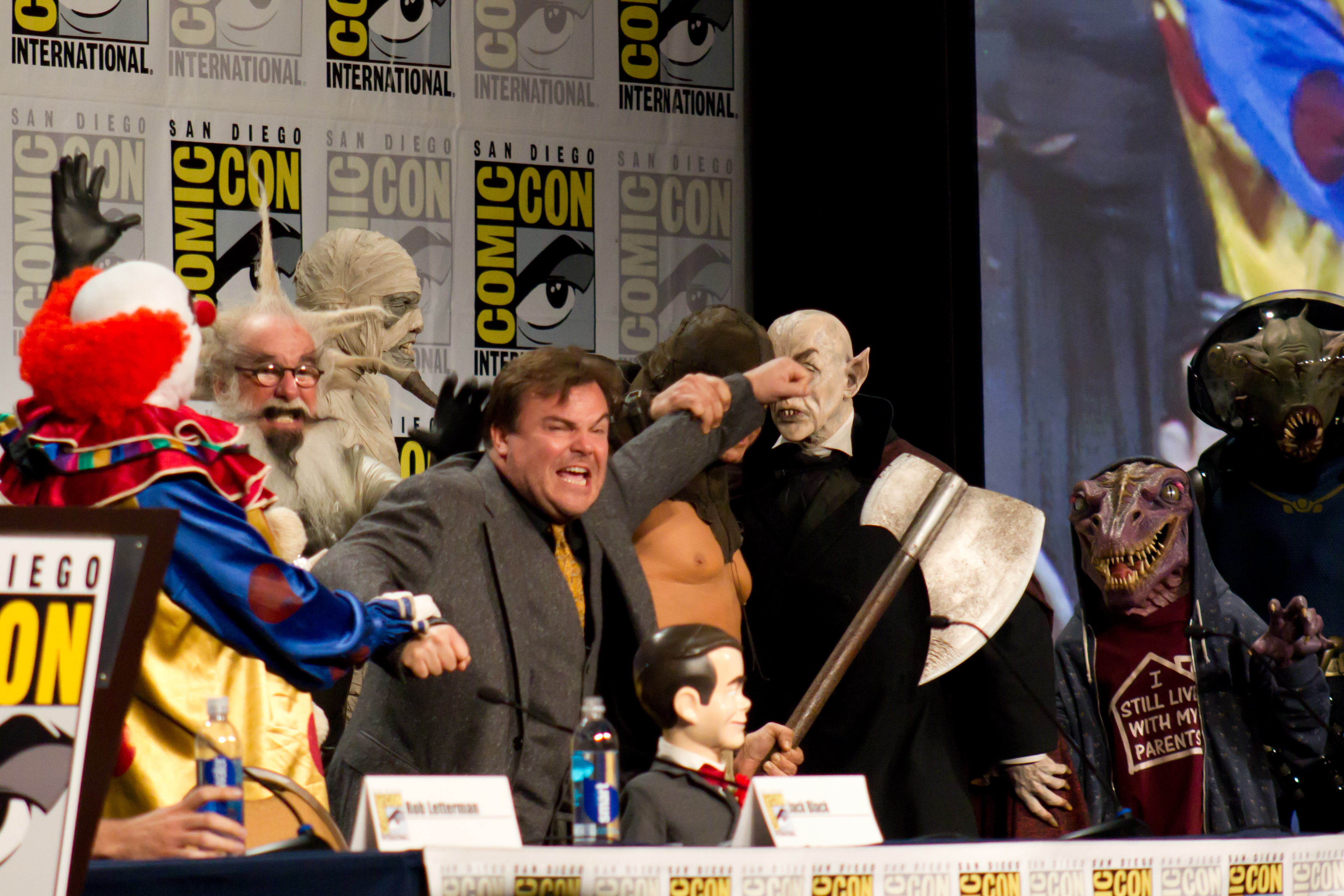 Jack Black at the Goosebumps panel at the 2014 Comic-Con International